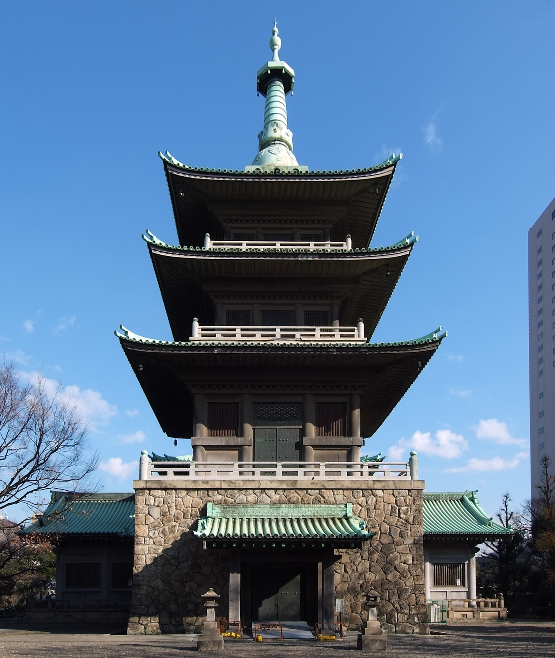 Tokyo Memorial Hall for the Casualties of the Great Kanto Earthquake at Ryogoku, Tokyo, Japan. Architect by Chuta Ito in 1930.